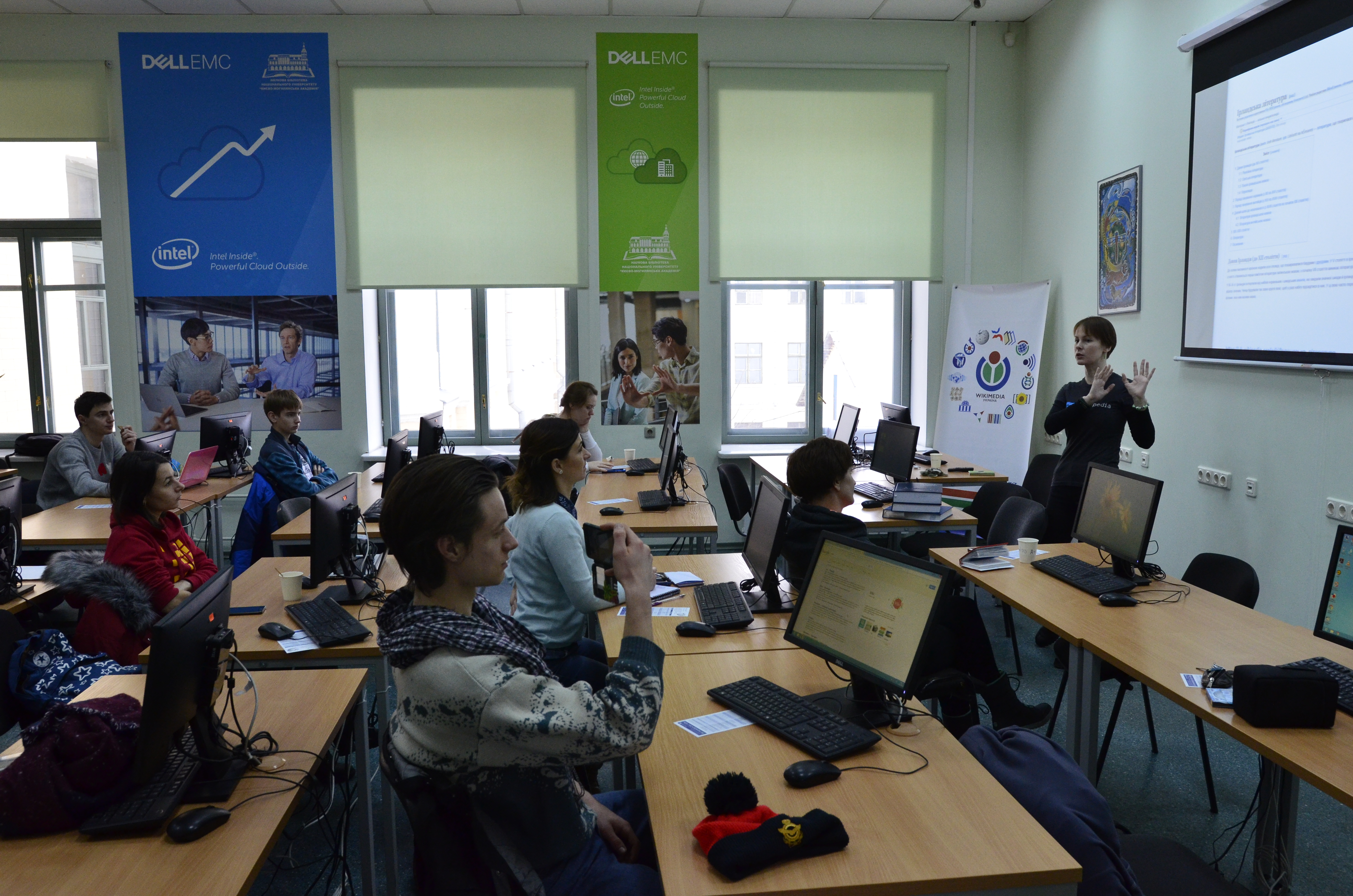 Wikimarathon 2018 in Kyiv Overview 01